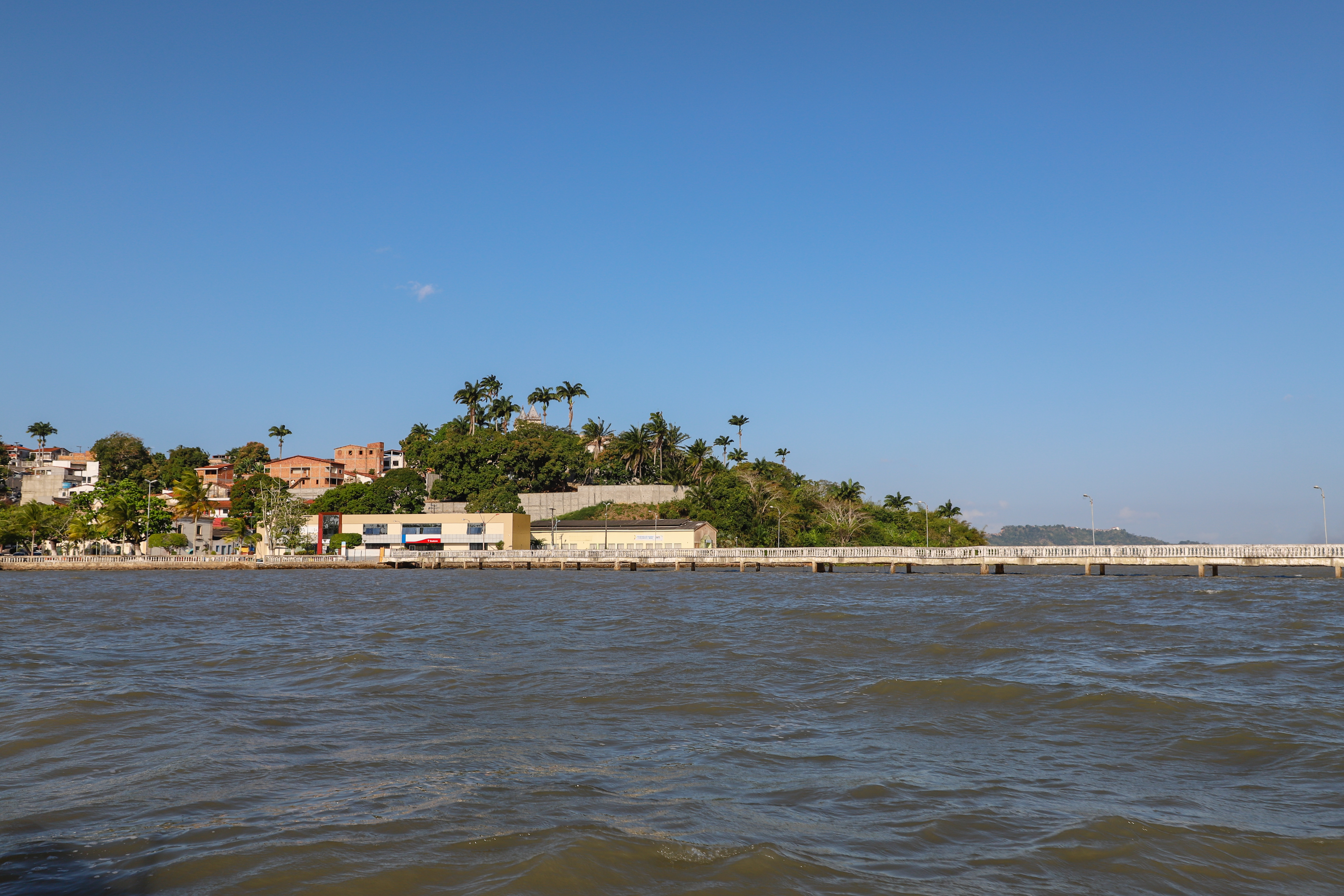 View of São Francisco do Conde from Paraguaçu River, São Francisco do Conde, Bahia, Brazil.